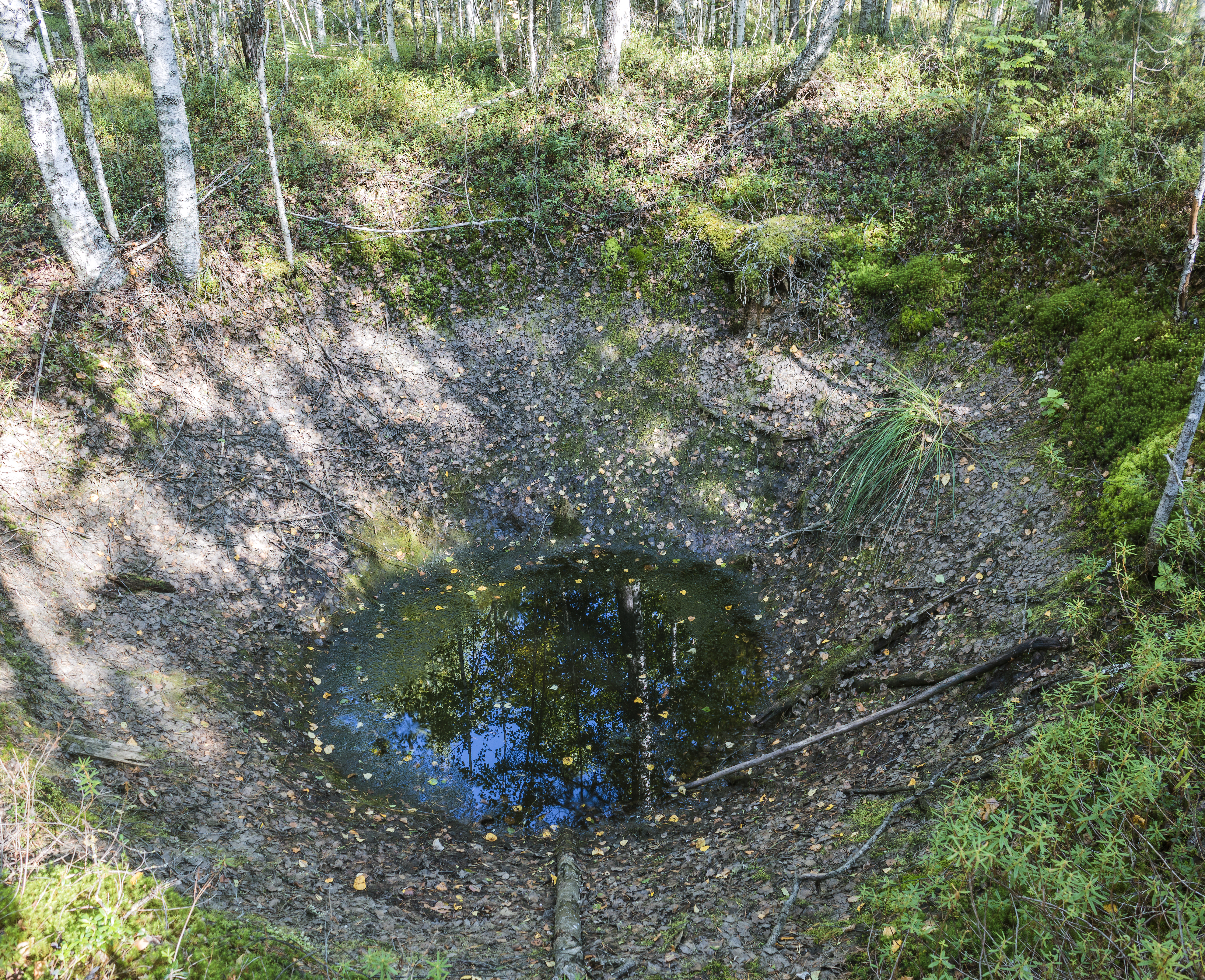 Karst funnel suction (karst-suffusion) formed in the area of the white sea-Kuloi plateau of the Arkhangelsk region.